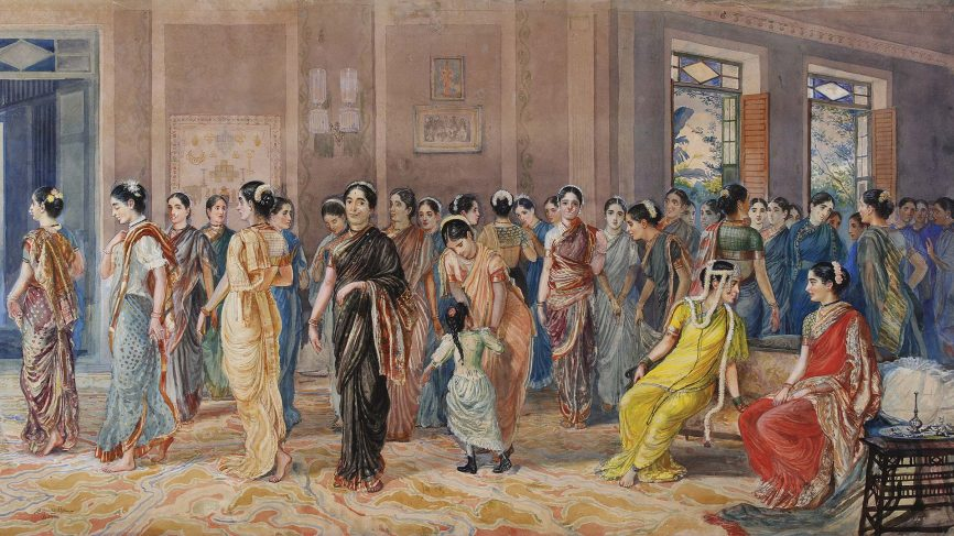 M.V. Dhurandhar’s ‘Scene Of Hindu Marriage Ceremony